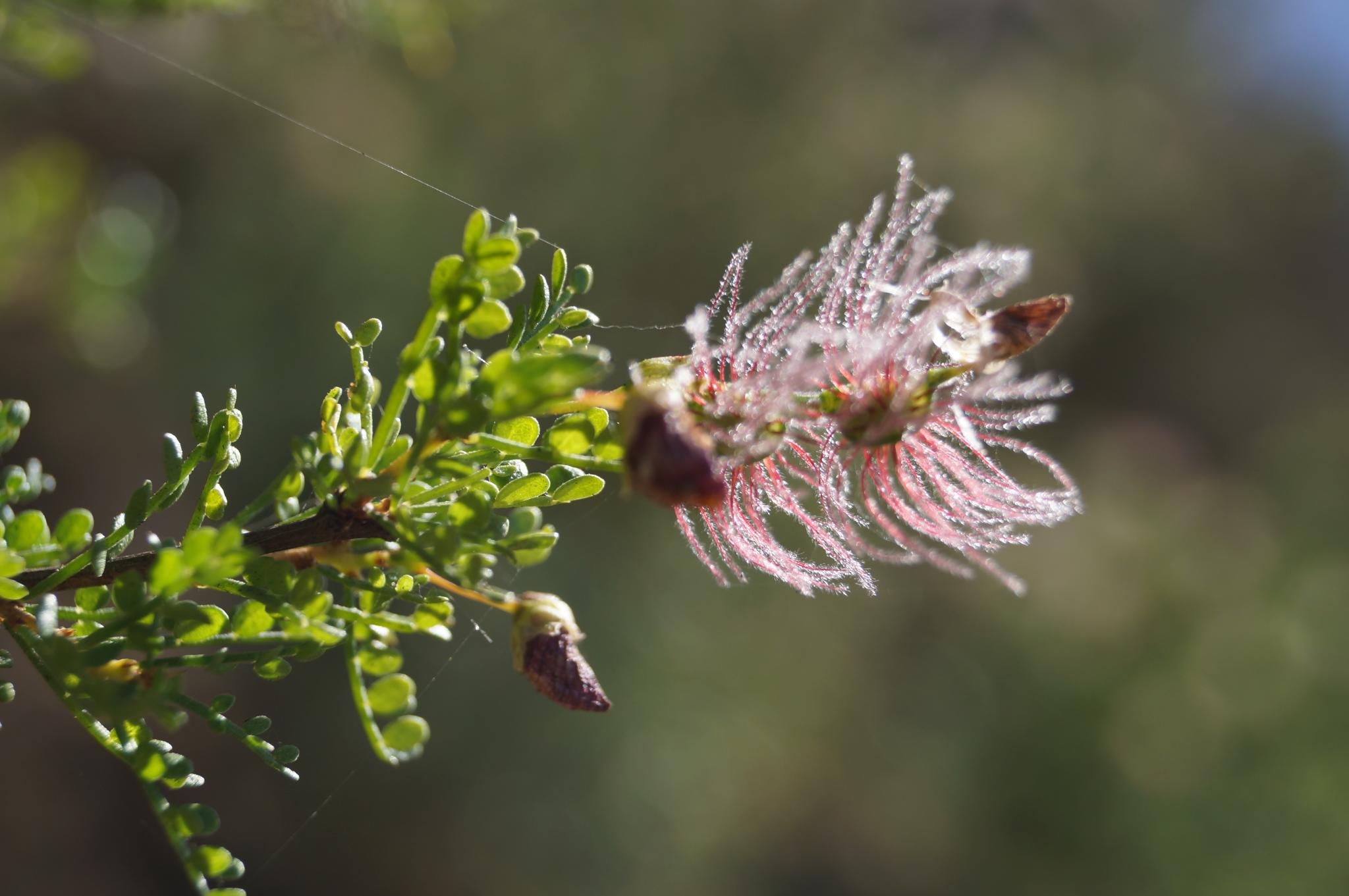 Adesmia confusa